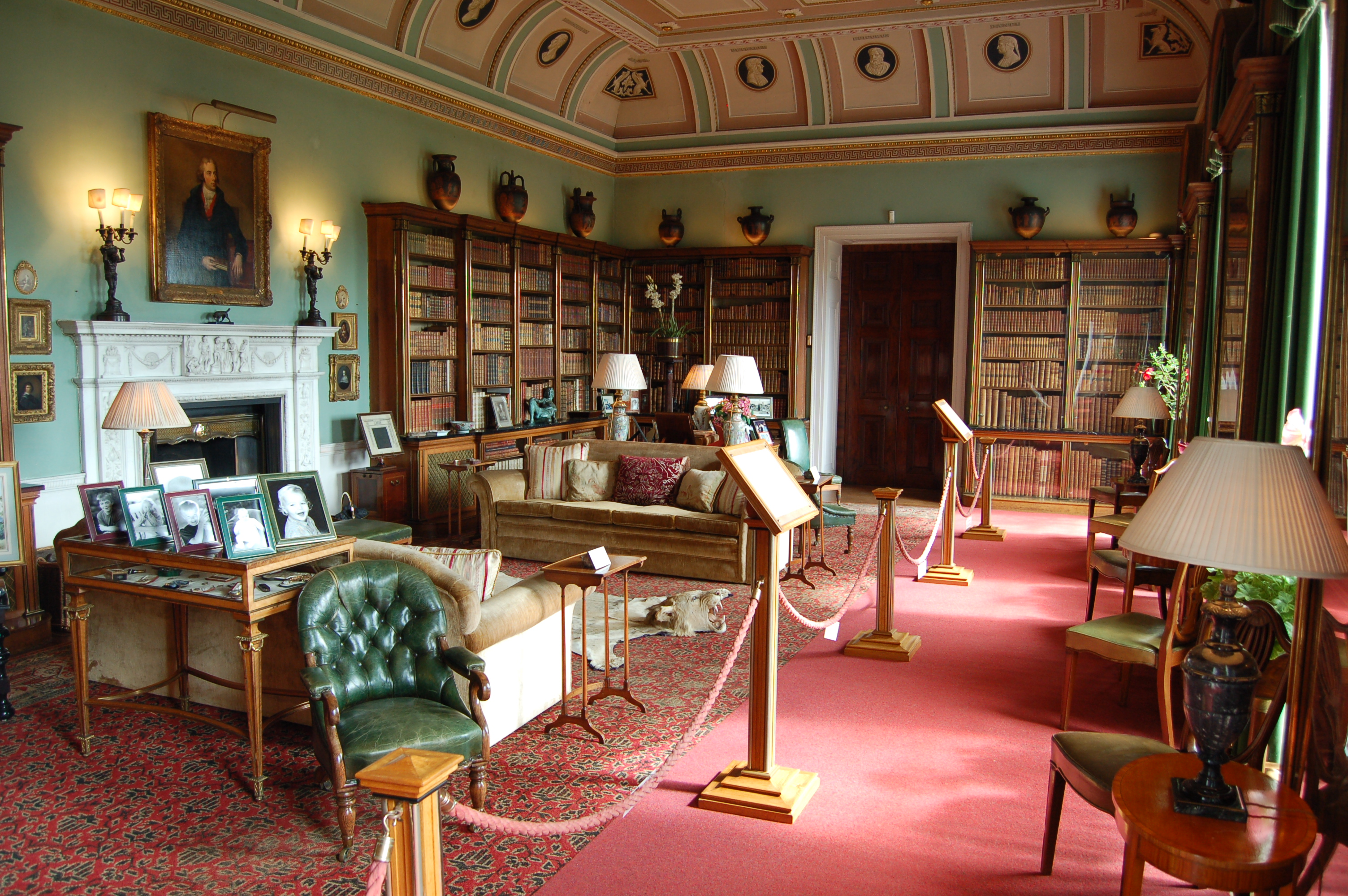 Photograph of the library at Bowood House. Bowood — is the stately Georgian country house and landscape gardens of the Marquis and Marchioness of Lansdowne. English landscape gardens designed by Lancelot "Capability" Brown. Interiors designed by Robert Adam in the 18th Century, the Library is actually early 19th century by Charles Robert Cockerell.